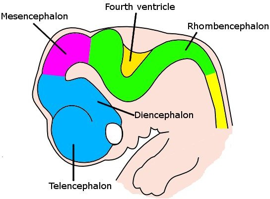 Diagram of the various parts of the brain of a six-week old embryo